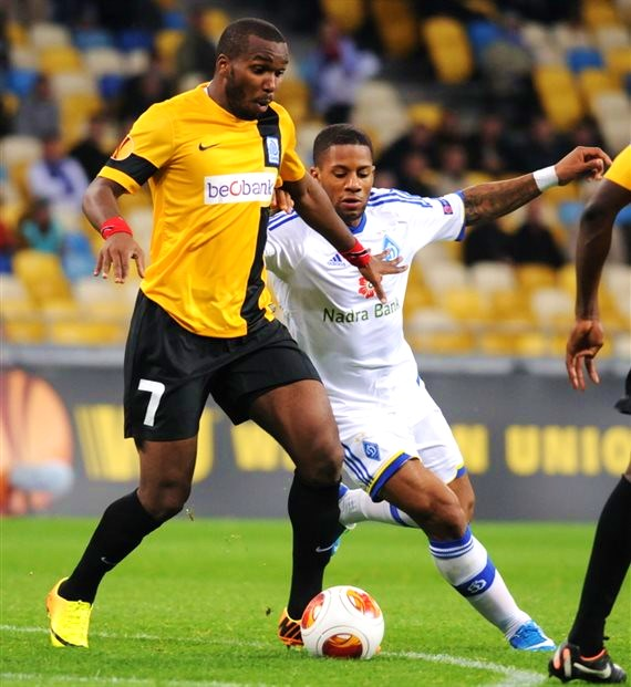 Khaleem Hyland 1